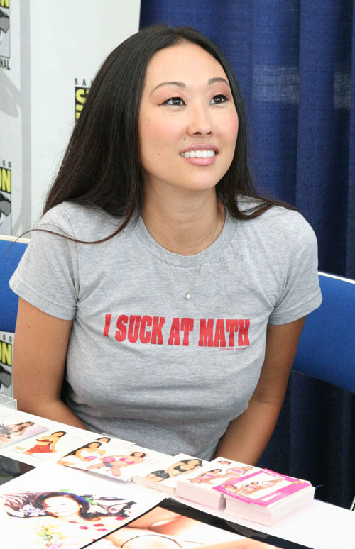 Candace Kita at San Diego Comic-Con 2008, Photography by: Craig W. Smith